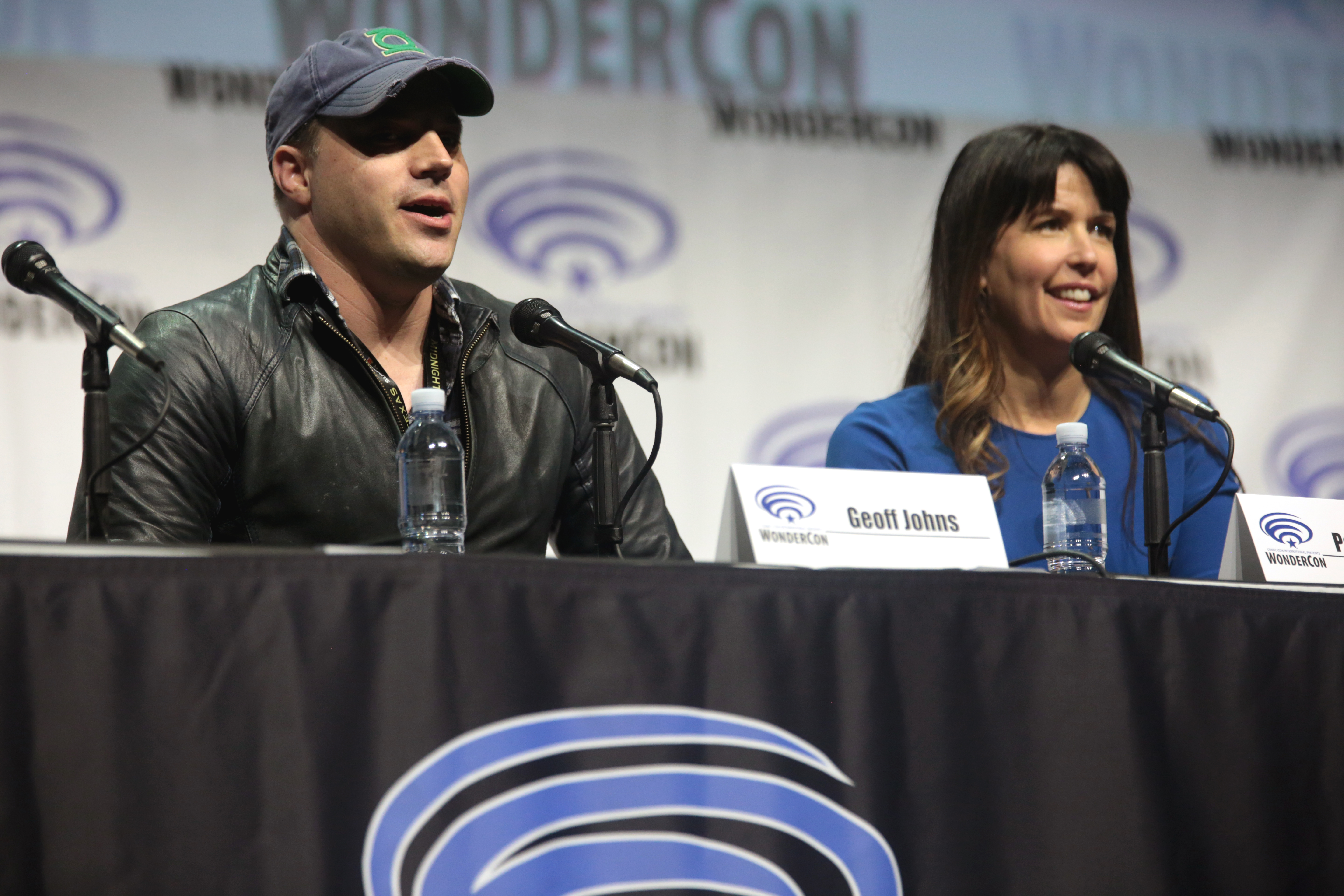 Geoff Johns and Patty Jenkins speaking at the 2017 WonderCon, for "Wonder Woman", at the Anaheim Convention Center in Anaheim, California.